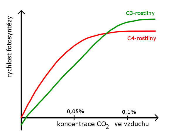 Photosynthesis - CO2 concentration graph